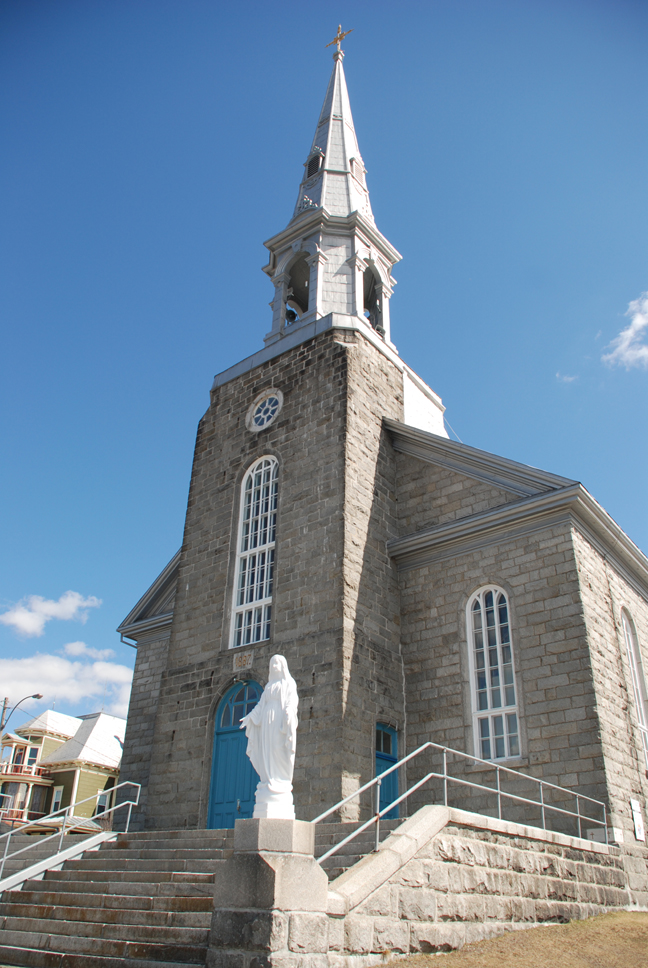 View of the Catholic Church in St-Evariste, Quebec